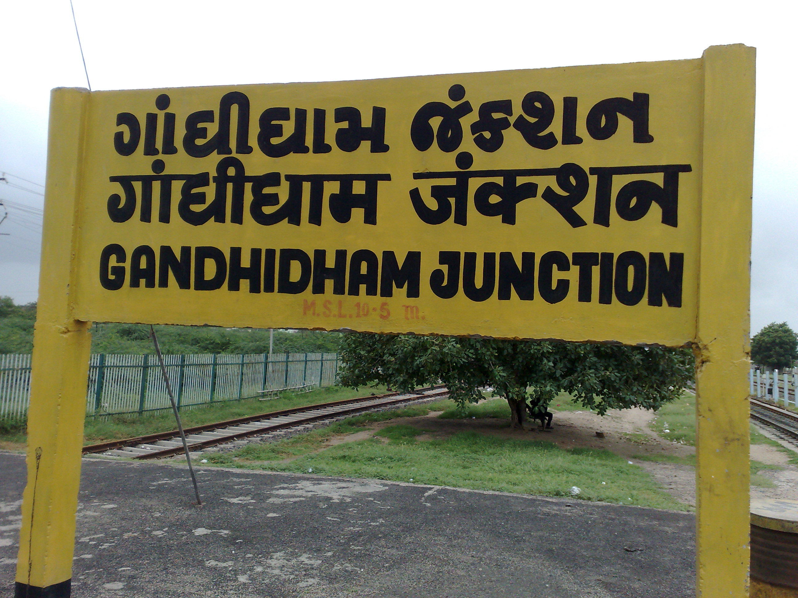 Gandhidham Junction stationboard